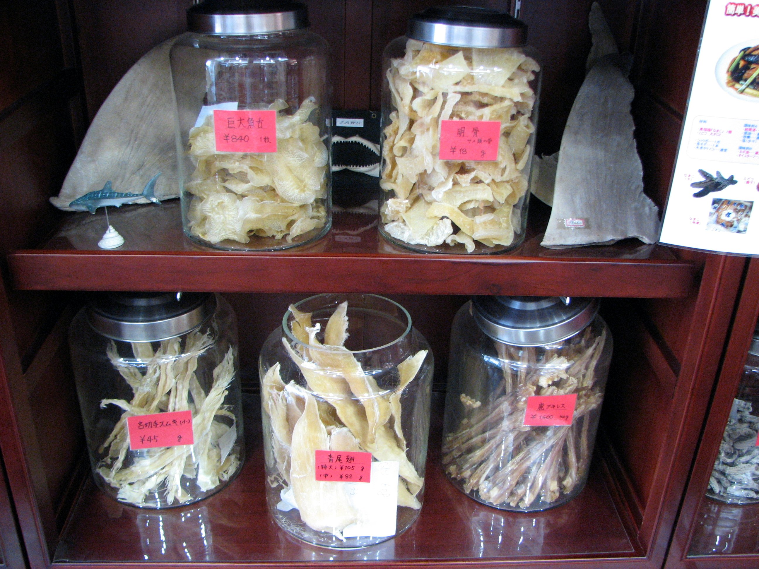 Collection of different body parts of sharks, including fins and tongues. Chinese Medicine in a chinese pharmacy in Yokohama, Japan.